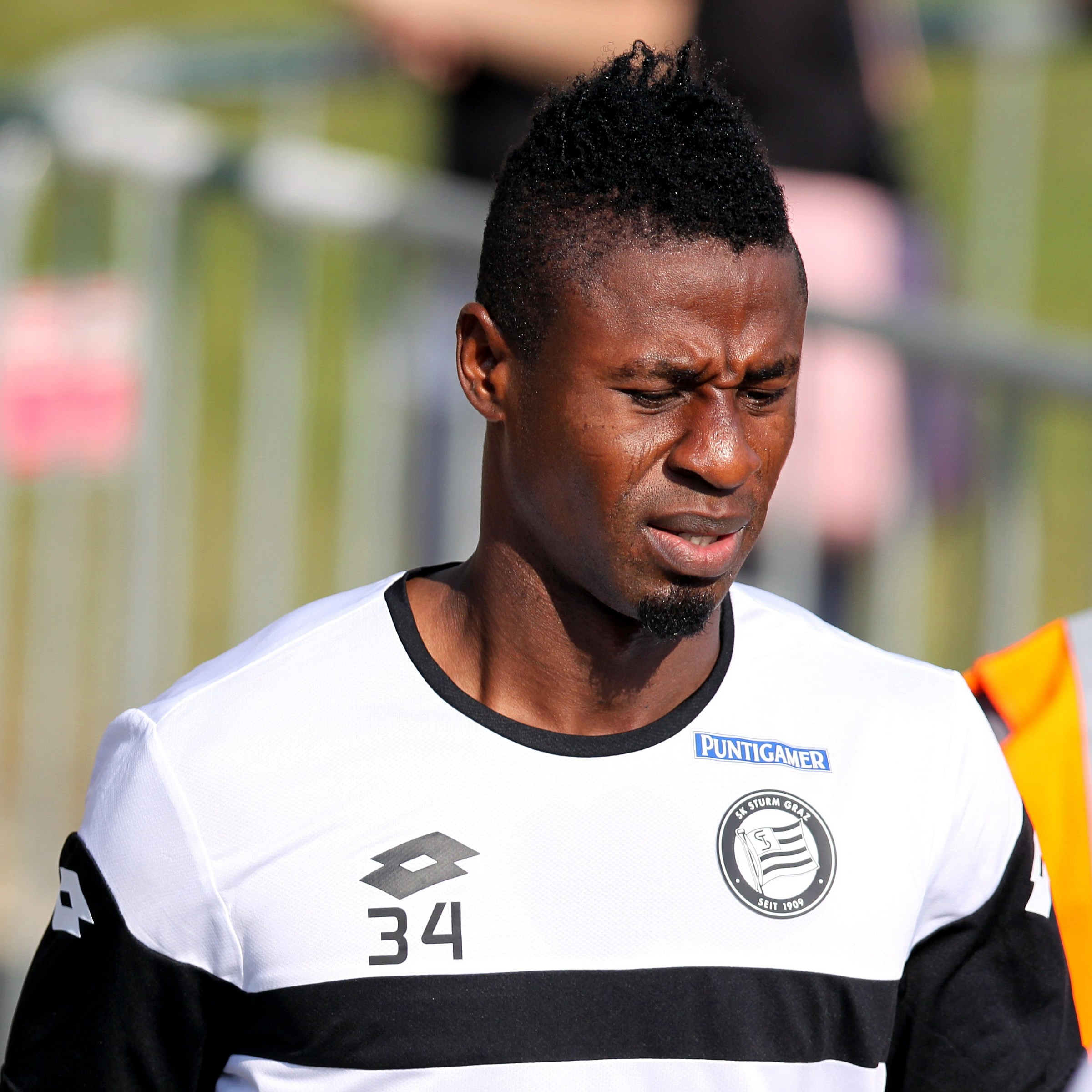 Match of the Austrian Football Bundesliga – SV Mattersburg (green shirts) vs. SK Sturm Graz (white shirts) on 2015-09-13 in Pappelstadion, Mattersburg – The photo shows Bright Edomwonyi